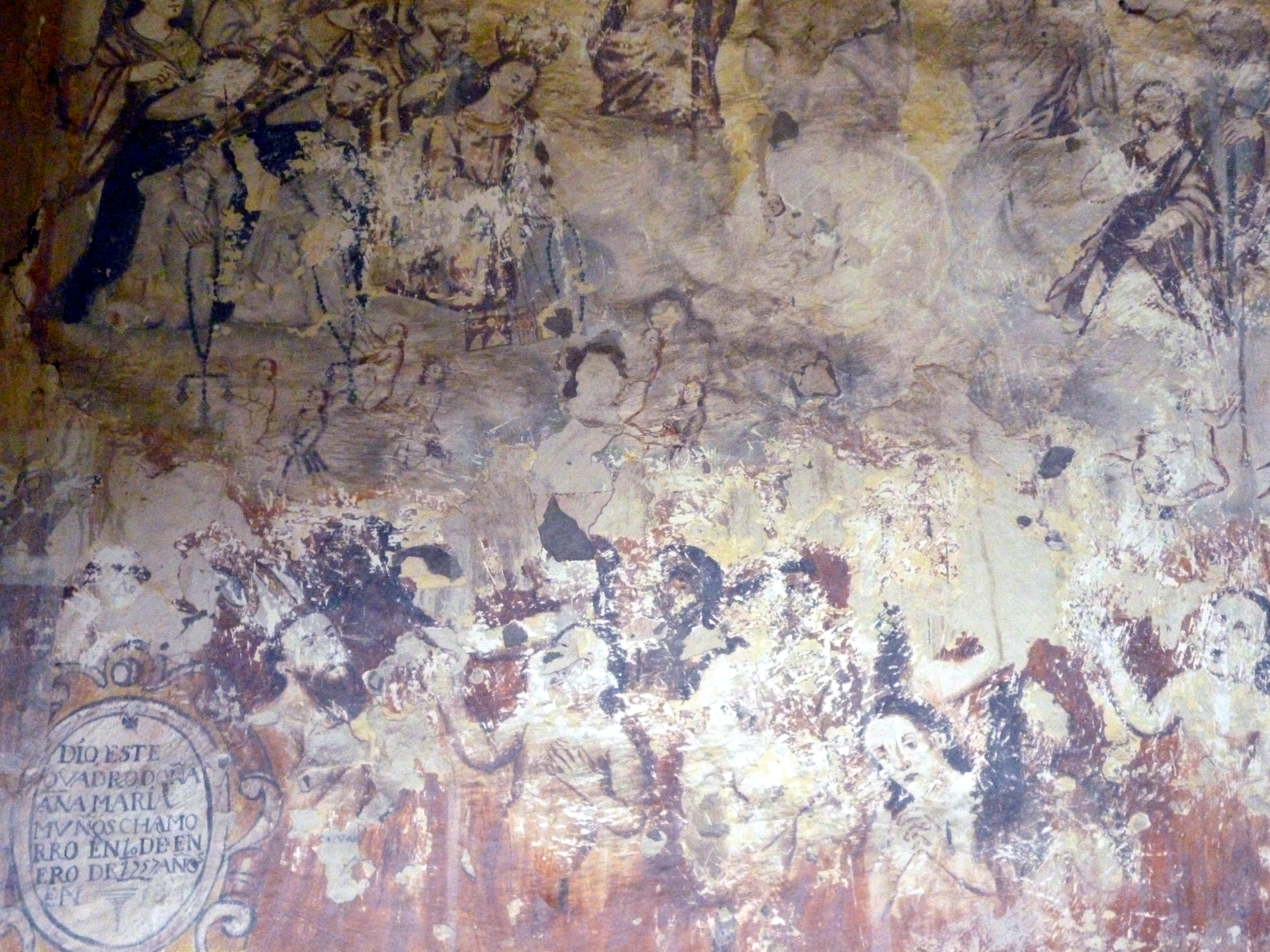 Drawing found in the Antique Chapel at Hacienda Guachalá